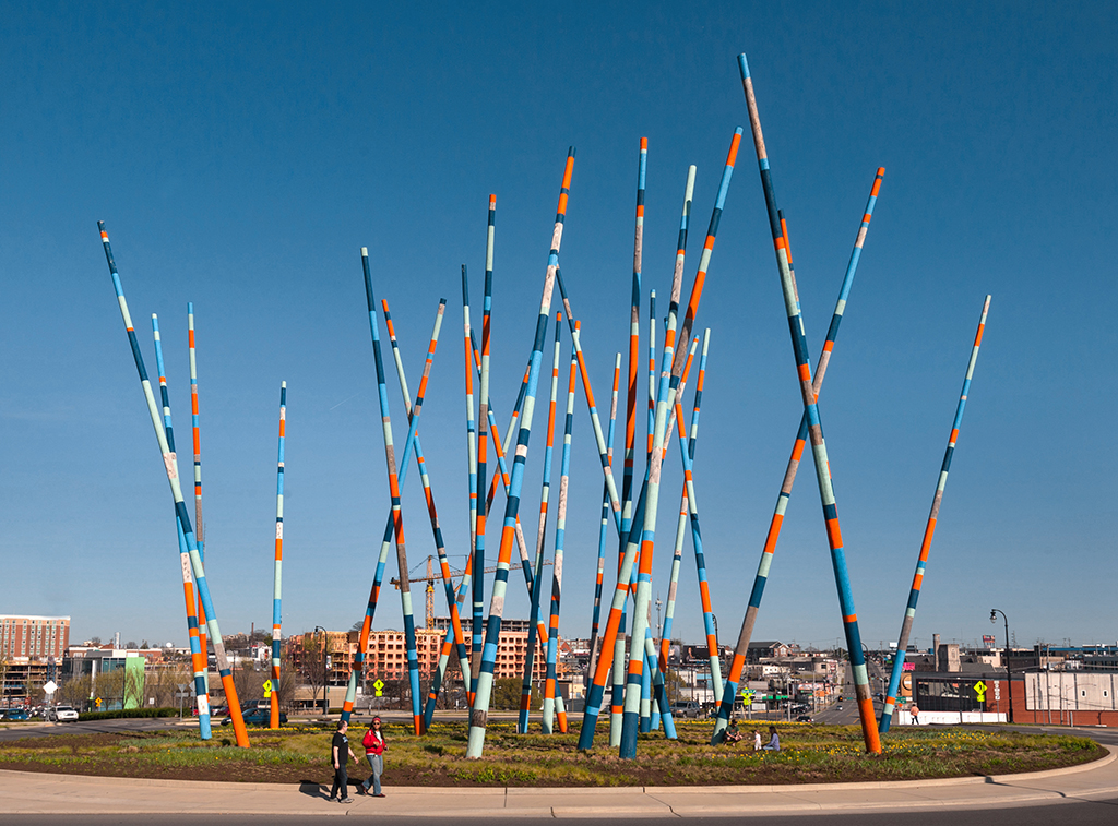 Stix Nashville, Tennessee 2016 Red Cedar wood and paint Dimensions: ø = 150’, H = 73’ Twenty-seven Western Red Cedar utility poles create a large-scale sculpture characterized by colorful patterns and possessing unlimited 360º viewing angles, making the journey through a roundabout a visual experience.